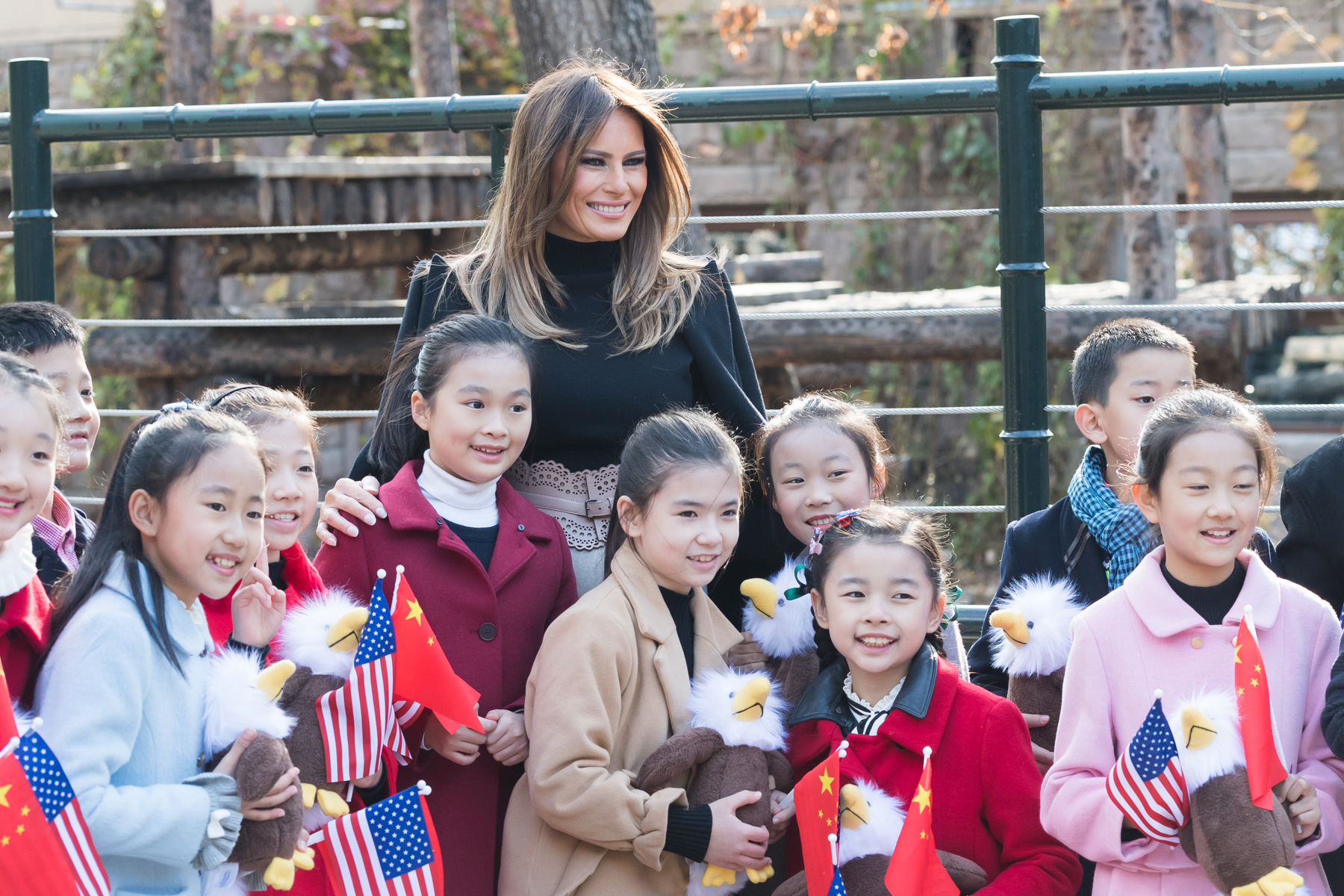 President Trump visits China | 2017